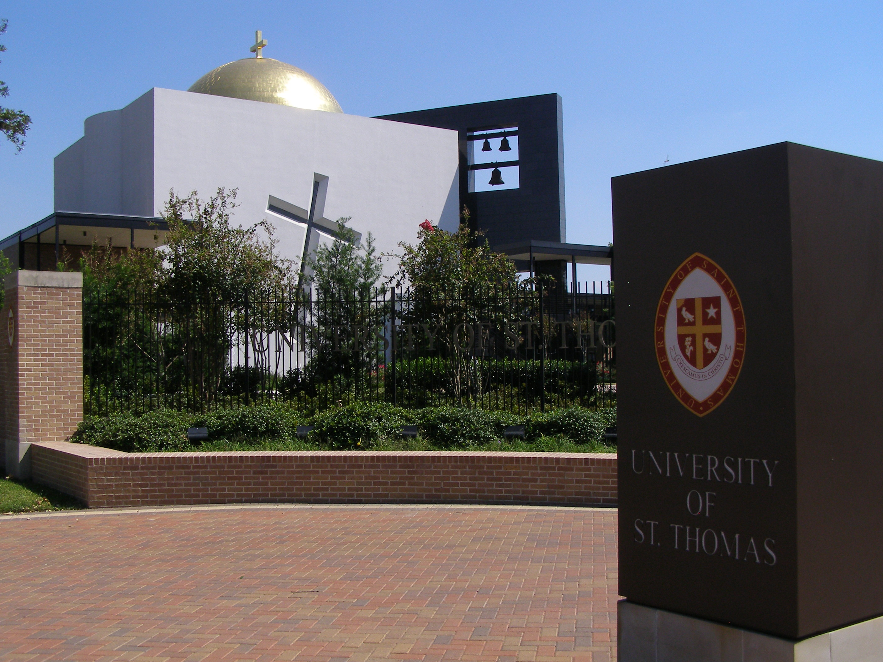 The St. Thomas University church, located at the Academic Mall